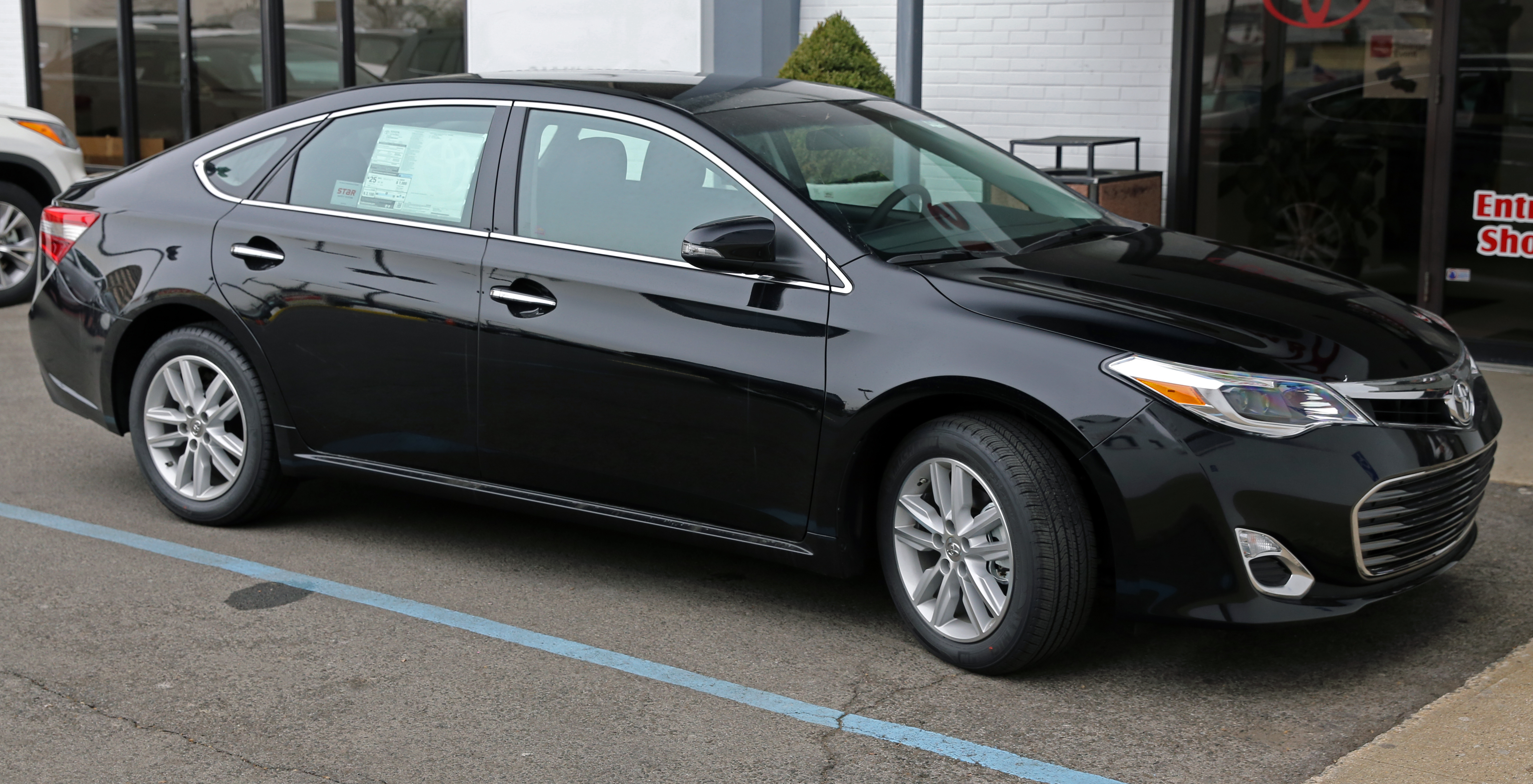 A 2014 Toyota Avalon XLE, front right view.